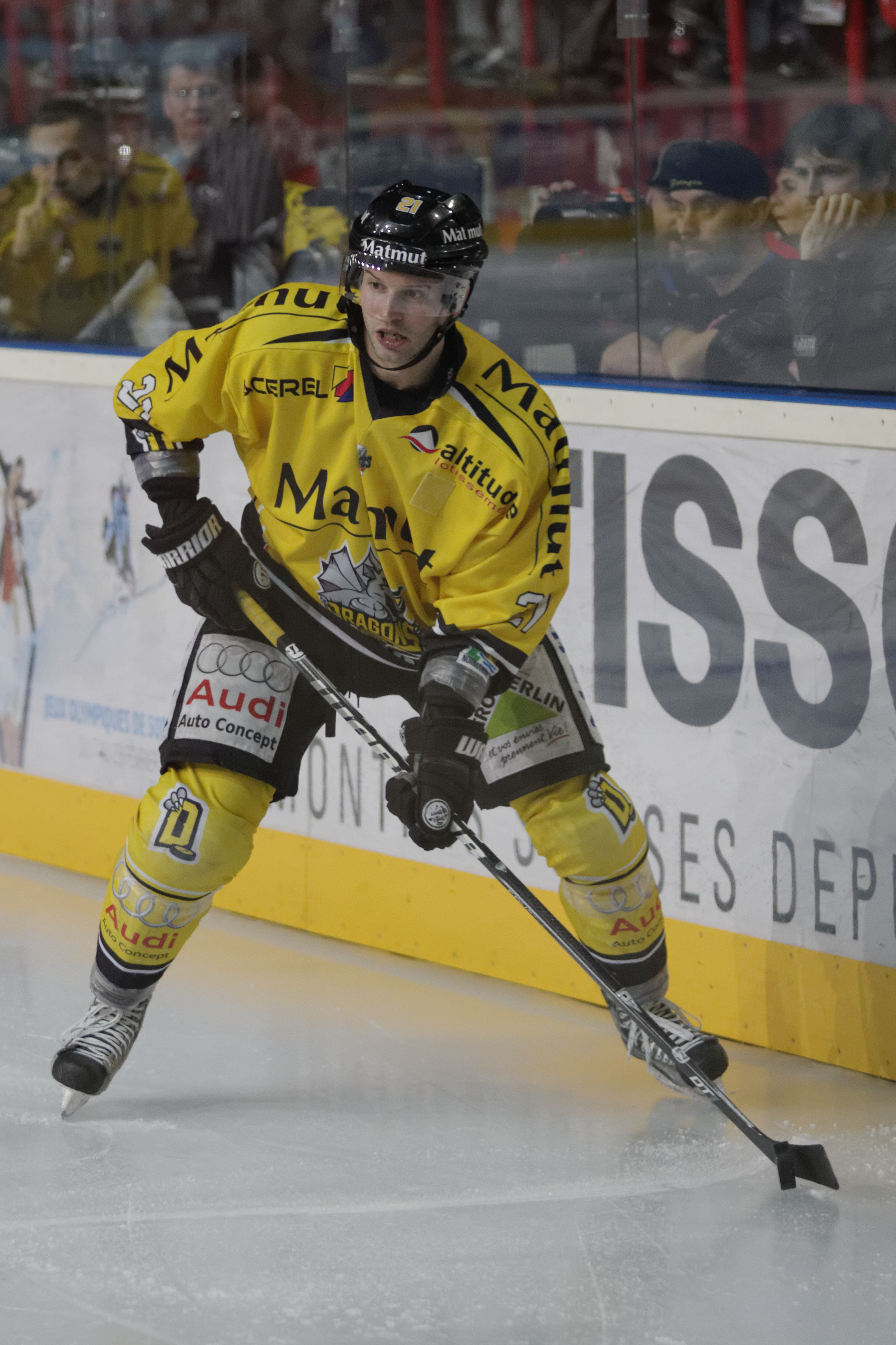 Final of the Ice Hockey French Cup 2014.